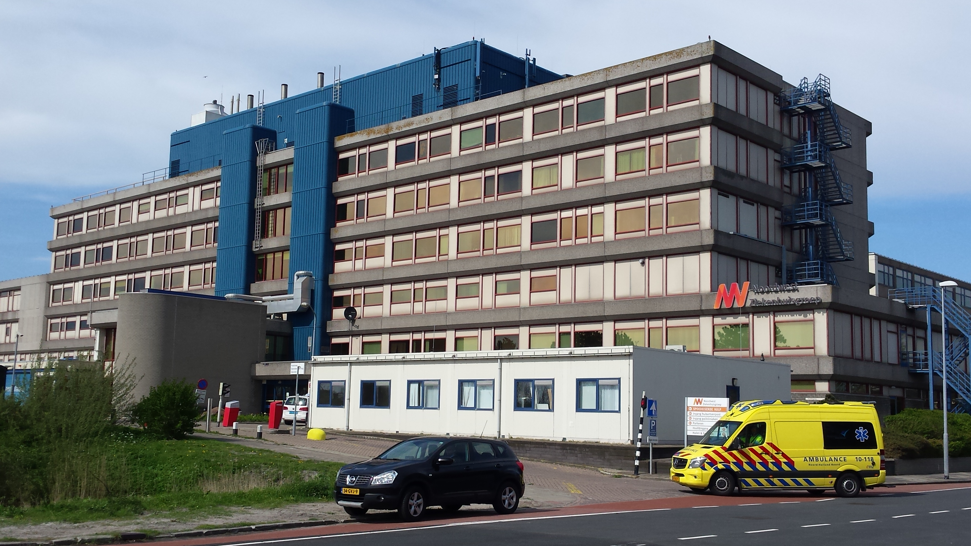 Den Helder hospital